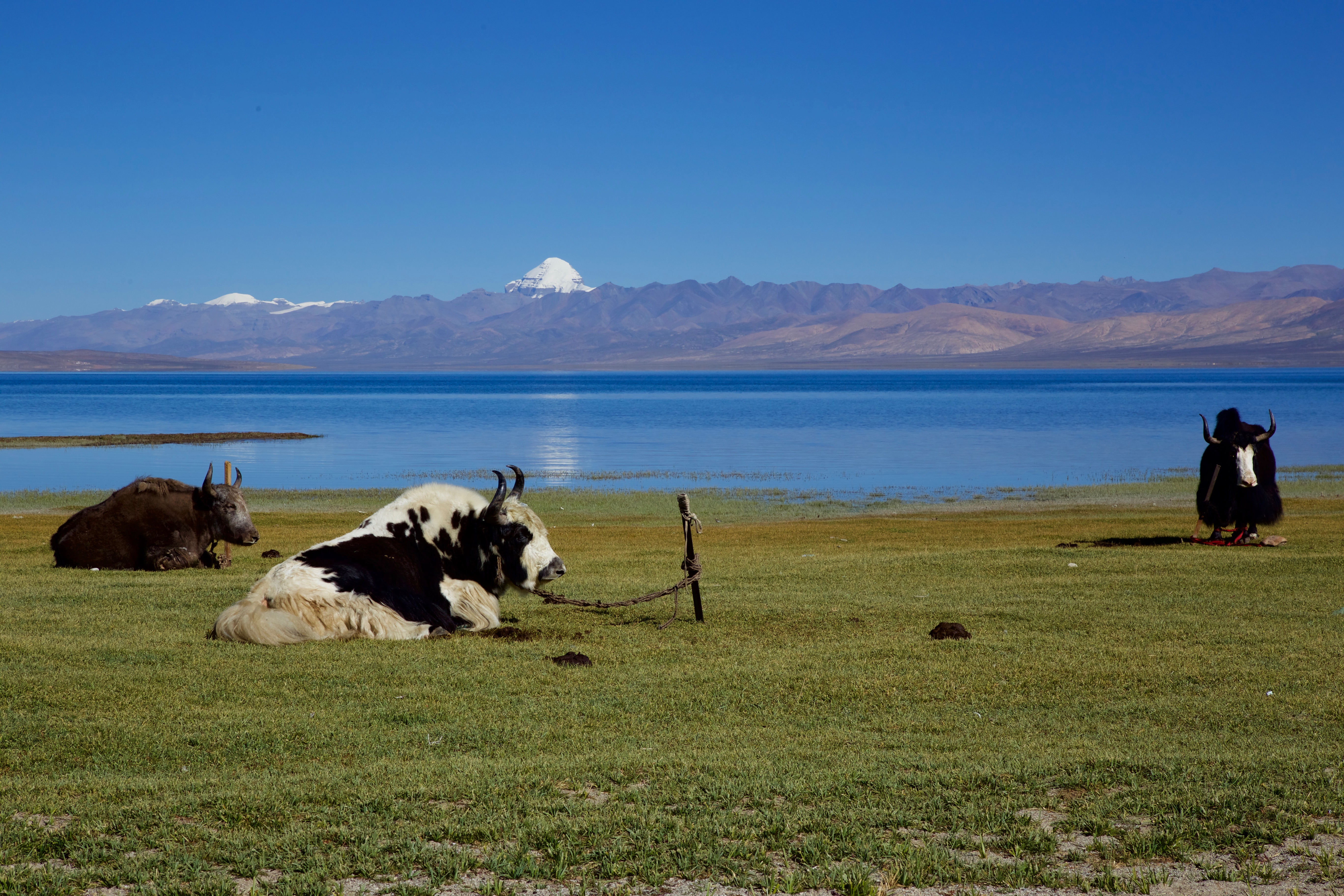 Mont Kailash mirroring in Lake Manasarovar.